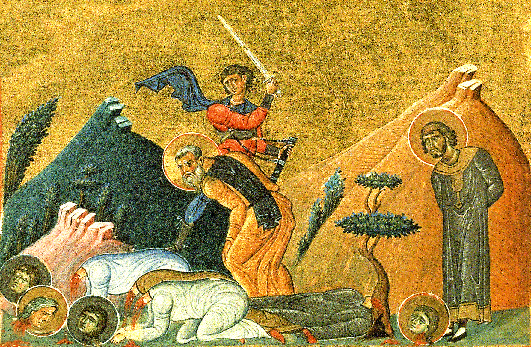 Cyrus, John, Athanasia and her three young daughters, Theoctiste, Theodota and Eudoxia.